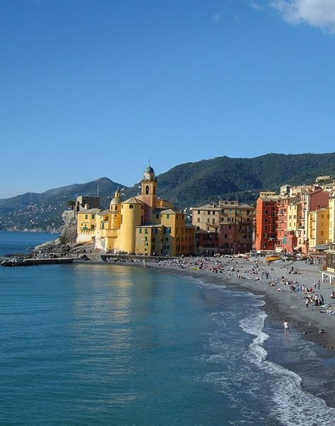 The beach of Camogli Picture taken by user:Idéfix, september 2004